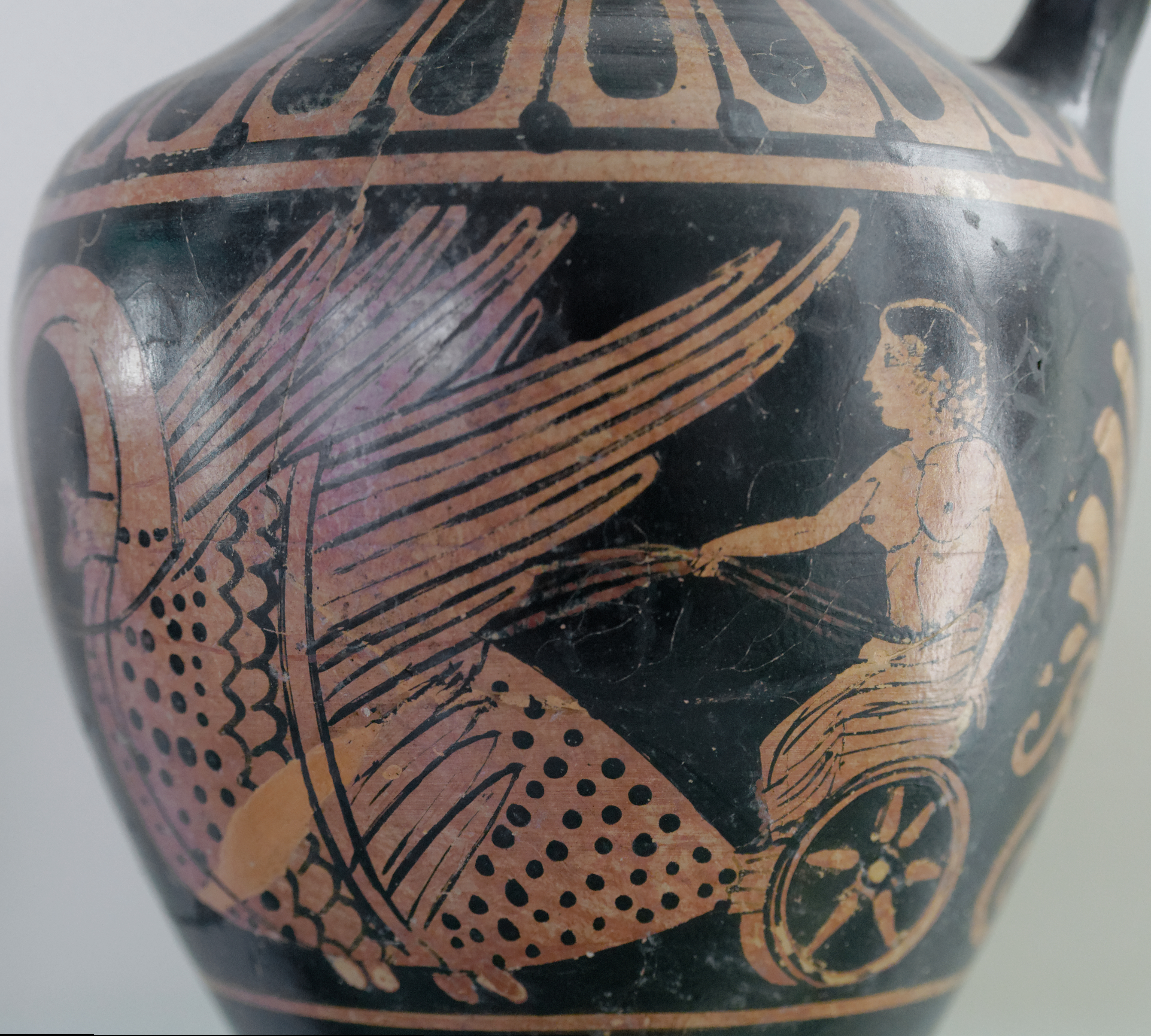 Hyacinthus meeting Apollo (not seen here) in a biga drawn by swans, Etruscan oinochoe (shape II).